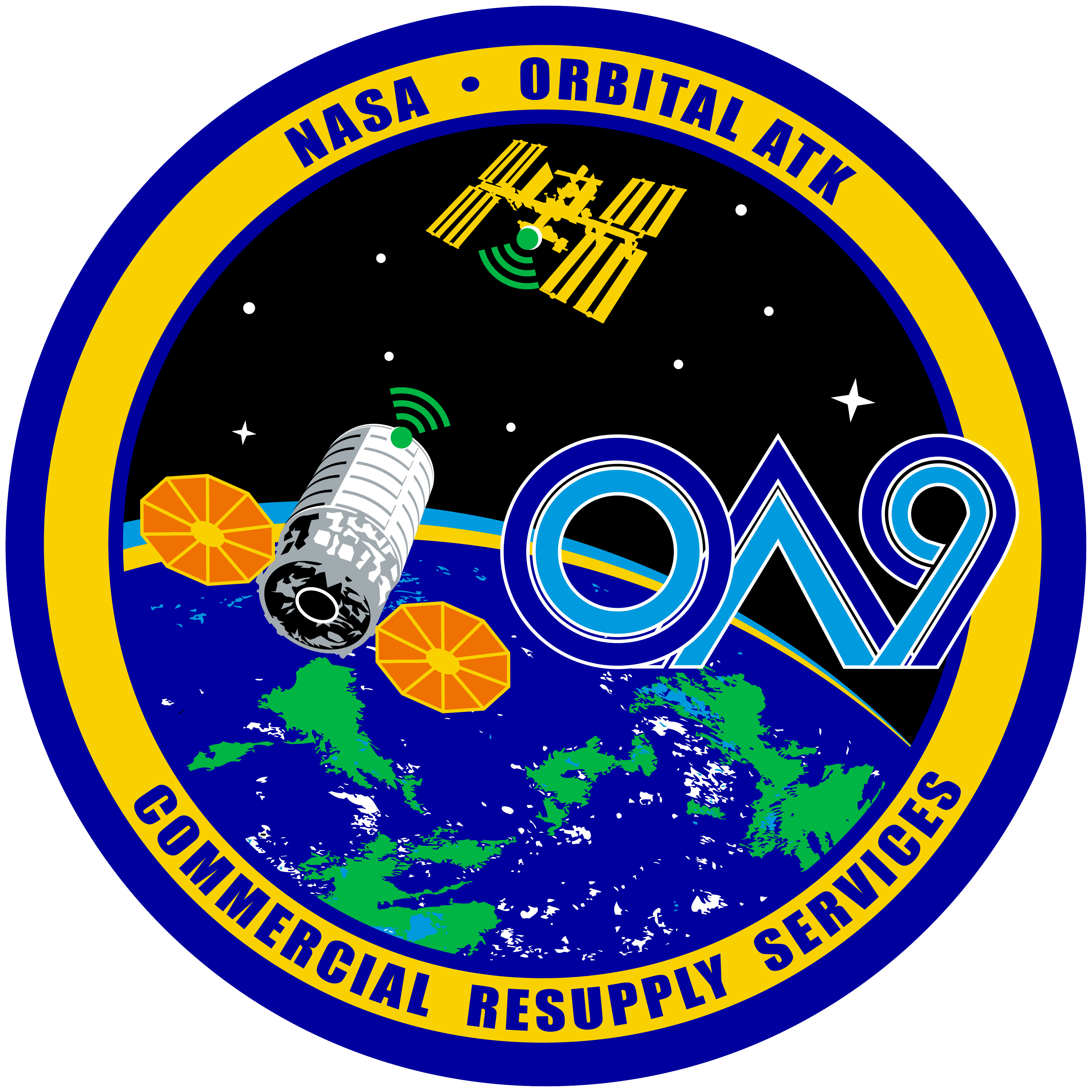 NASA insignia for Orbital ATK's OA-9E resupply flight